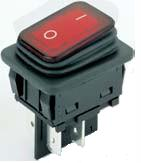 Seal Switch for Appliances